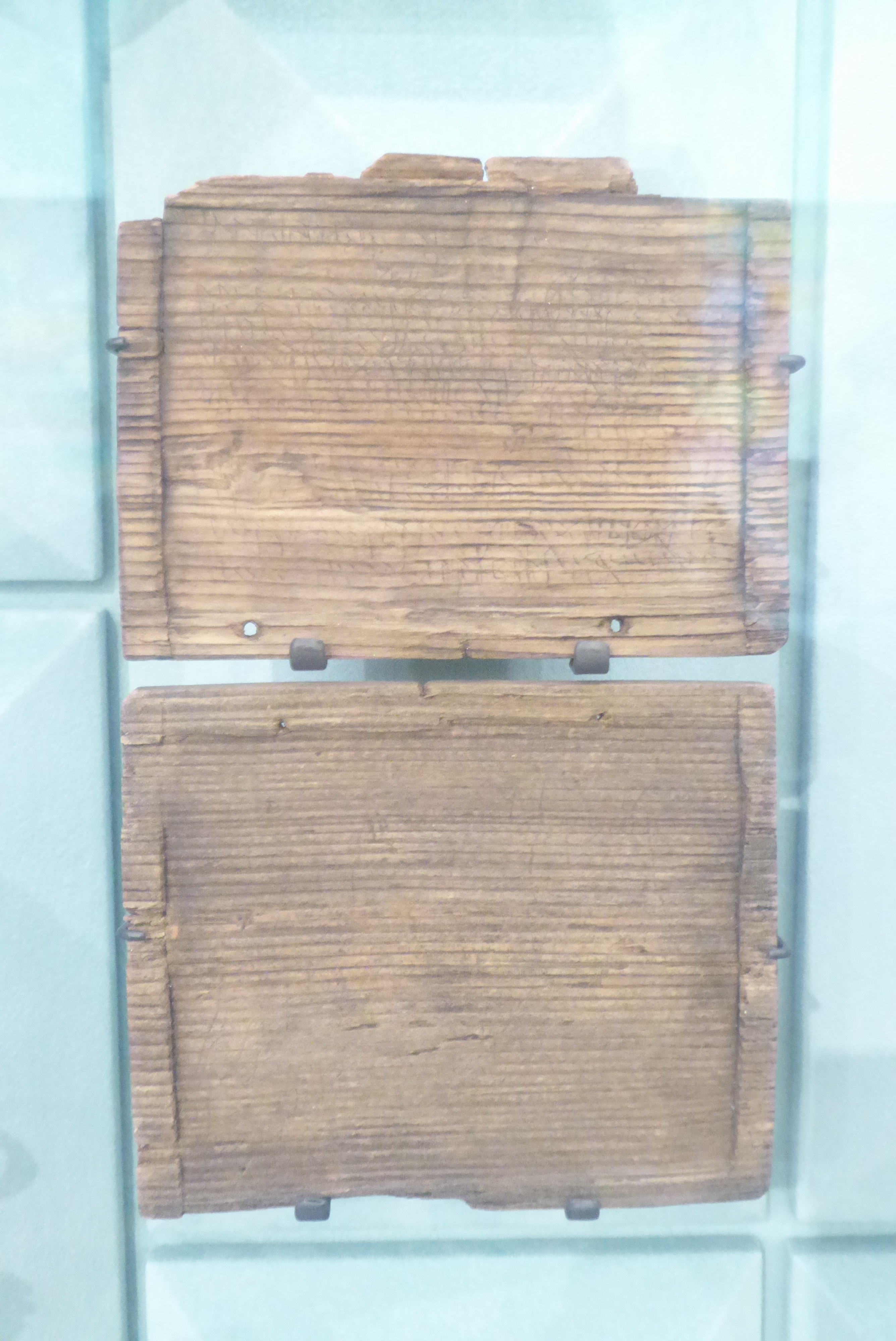 Roman writing boards, found under the Bloomberg building, London. 1st century AD. On display in museum of the London Mithraeum